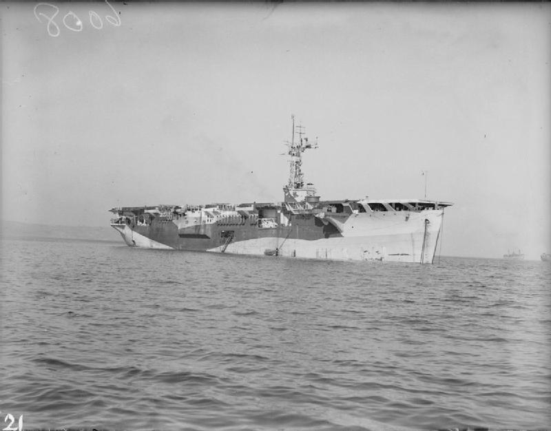 HMS Campania At anchor.